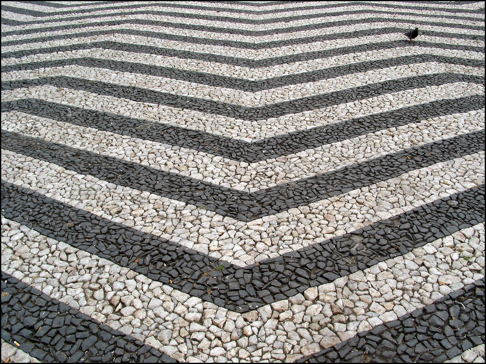 photo by ricardo / This photo is licensed under a Creative Commons license. If you use this photo within the terms of the license or make special arrangements to use the photo, please list the photo credit as "ricardo / " and link the credit to .